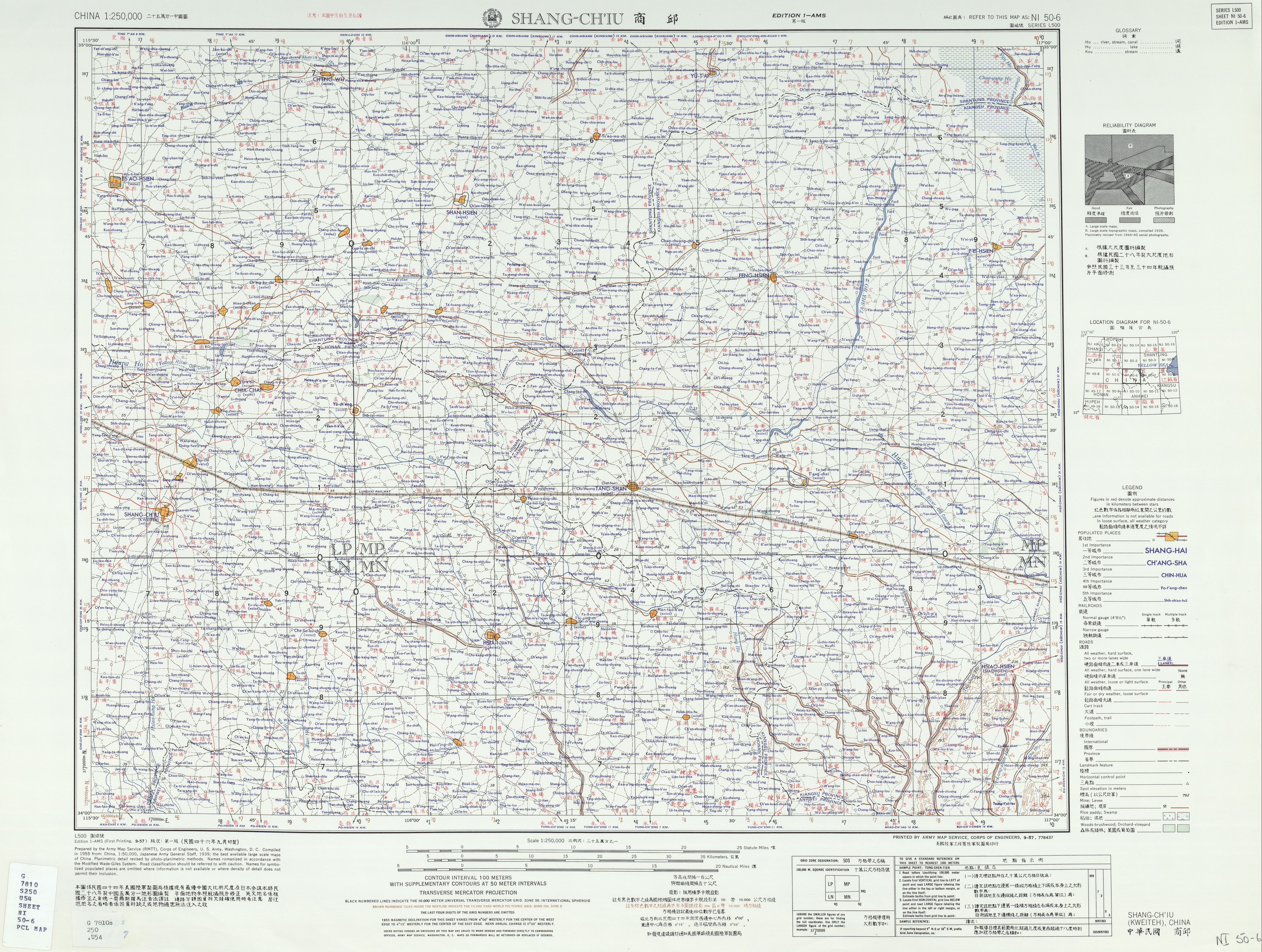 China AMS Topographic Maps